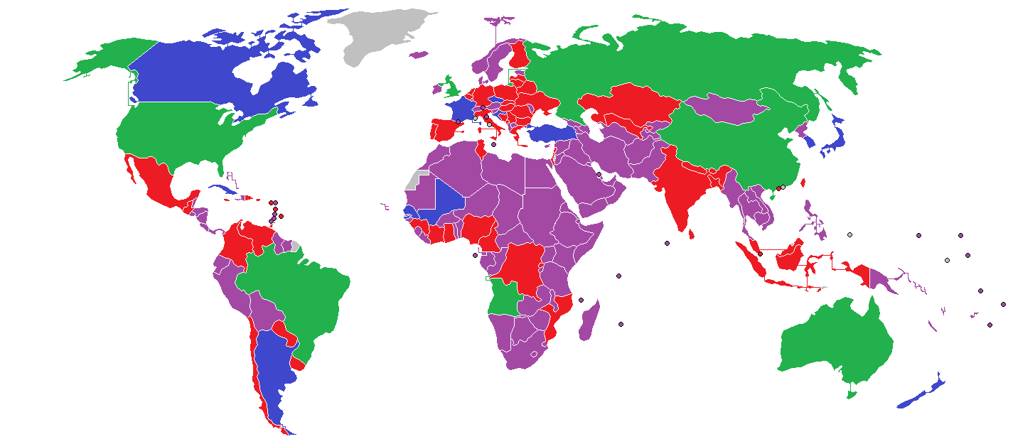 Status of national teams' qualification for the 2012 Olympic women's basketball tournament.